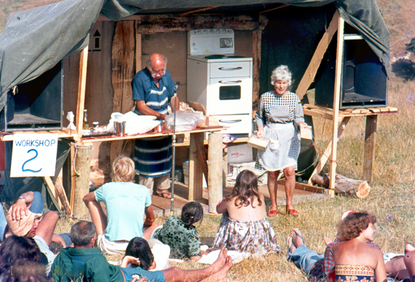 Image (photograph) taken by Official Nambassa Photographer and uploaded by User: Mombas 22:48, 4 May 2007 (UTC)Mombas 22:42, 4 May 2007 (UTC) , Nambassa dot com Terms of Use: 1/ All users of this image are required to attribute this work to "Nambassa Trust and Peter Terry" and the url: " " is to accompany all use. 2/ Attribution. You must attribute the work in the manner specified by the author or licensor. 3/ For any reuse or distribution, you must make clear to others the license terms of this work. Statement by Nambassa Trust and Peter Terry